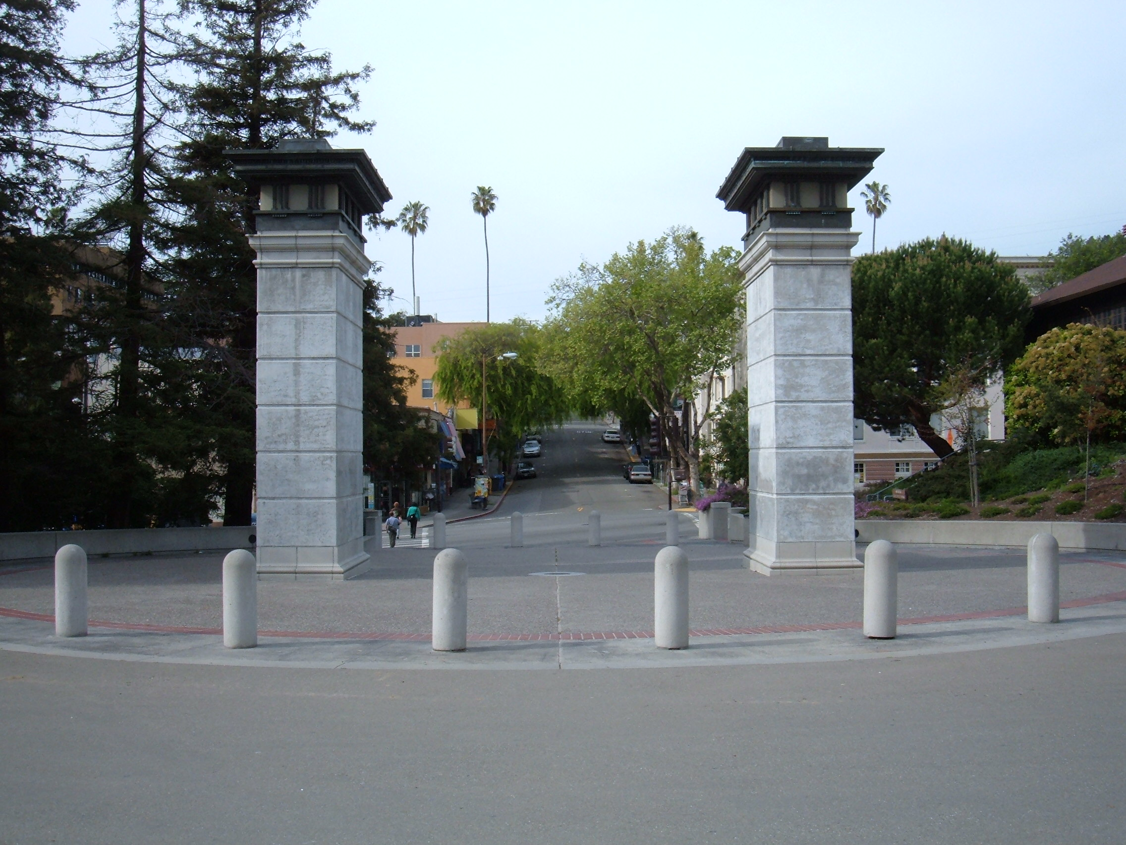 The North Gate on the UC Berkeley campus, a gift of the Class of 1954, facing north towards Hearst Avenue.